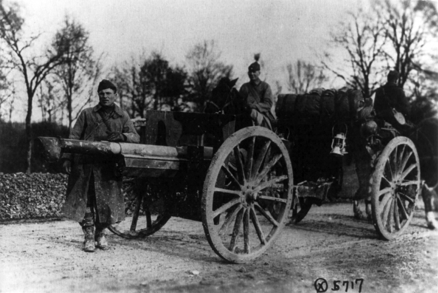 Three soldiers with large gun drawn by horses. Caption: The first American gun fired in France for cause of humanity.